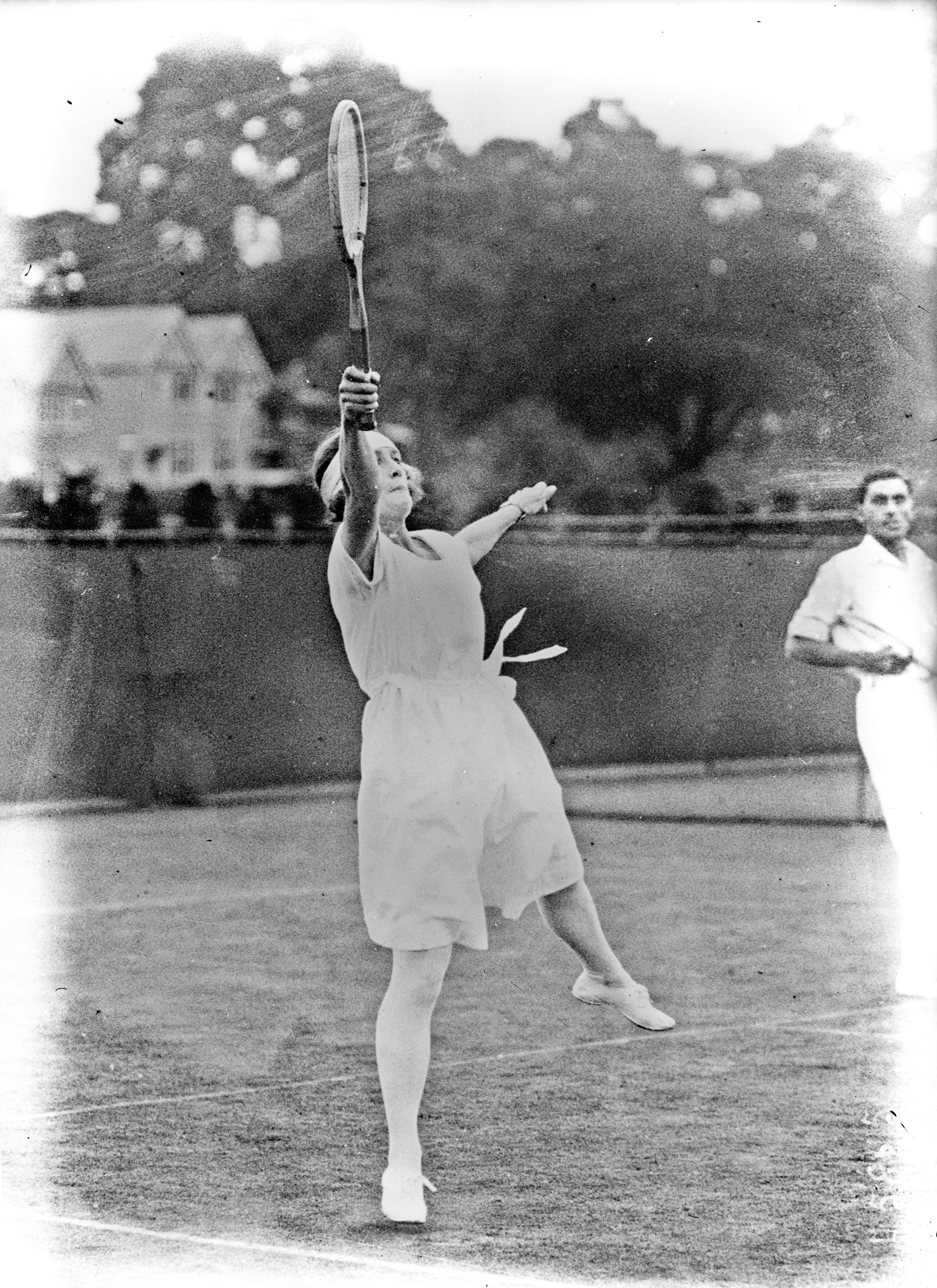 British tennis player Evelyn Colyer at the 1922 Wimbledon Championships playing in the first round of the mixed doubles event with Cotah Ramaswami.